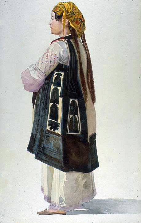 Albanian Peasant Athens